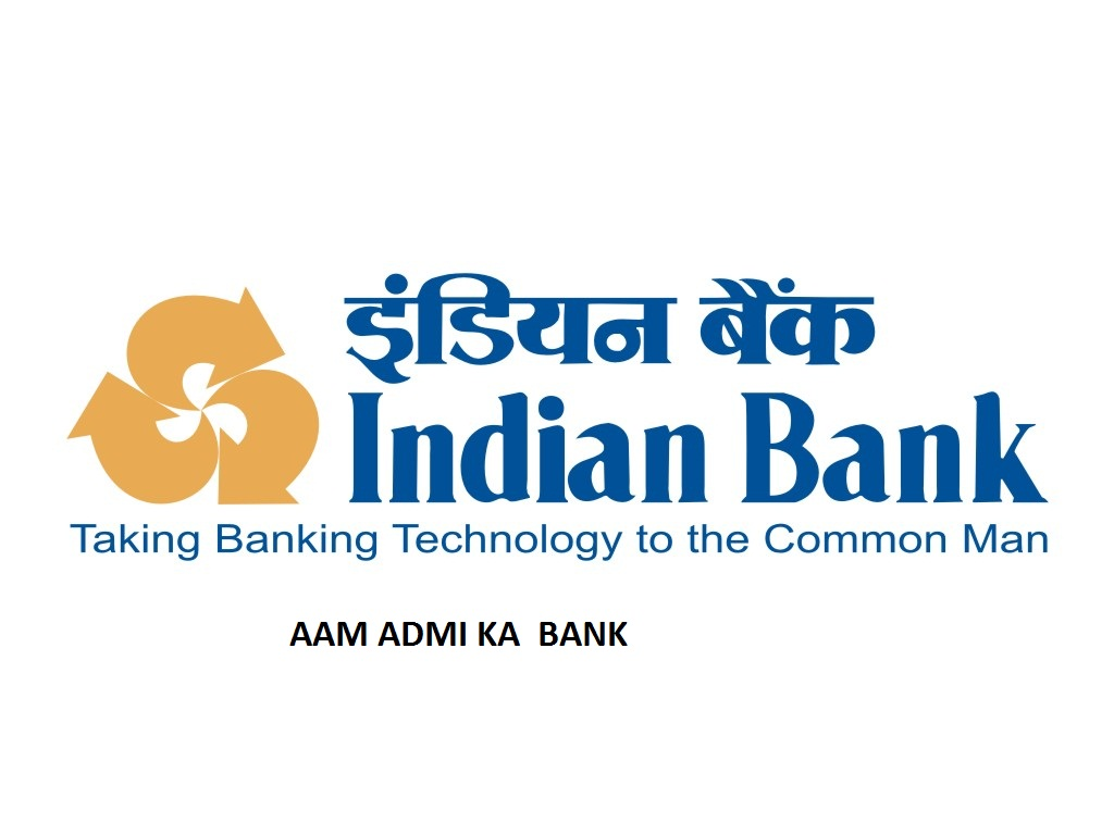 Indian bank logo with edits